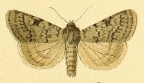 Image from Plate 6 of Die Gross-Schmetterlinge der Erde (The Macrolepidoptera of the World) Vol. 3